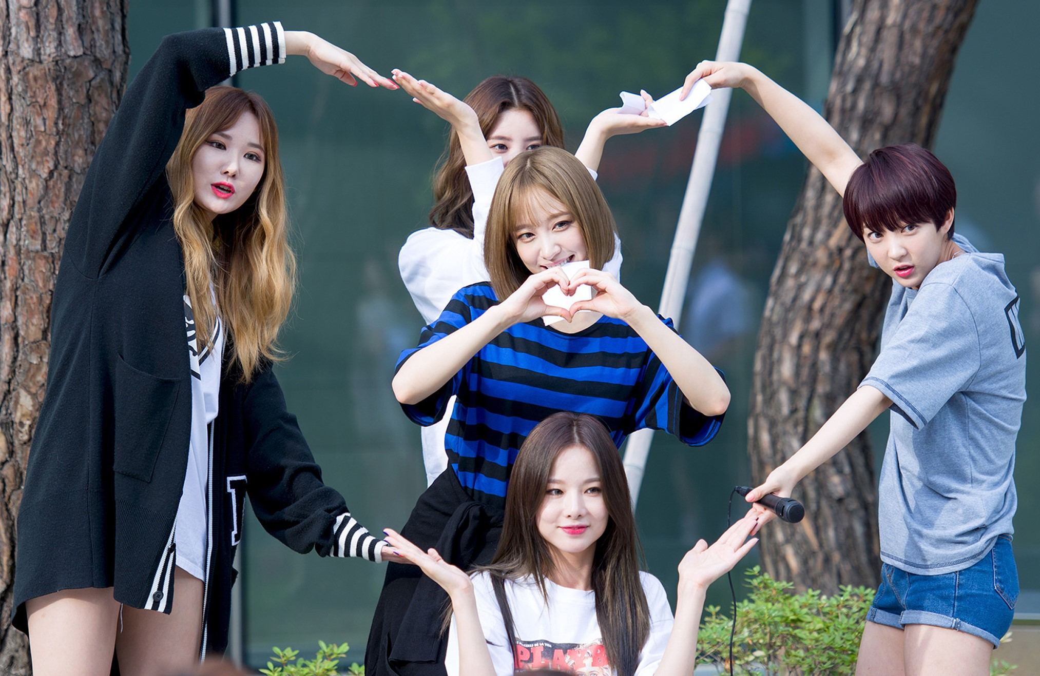 EXID at a fanmeet on Show Music Core on July 2, 2016.